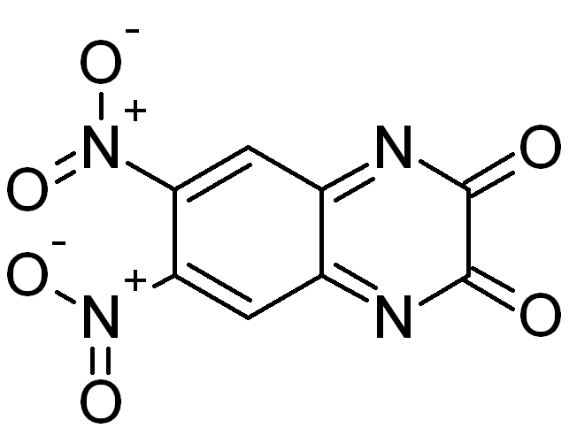 Structure of DNQX